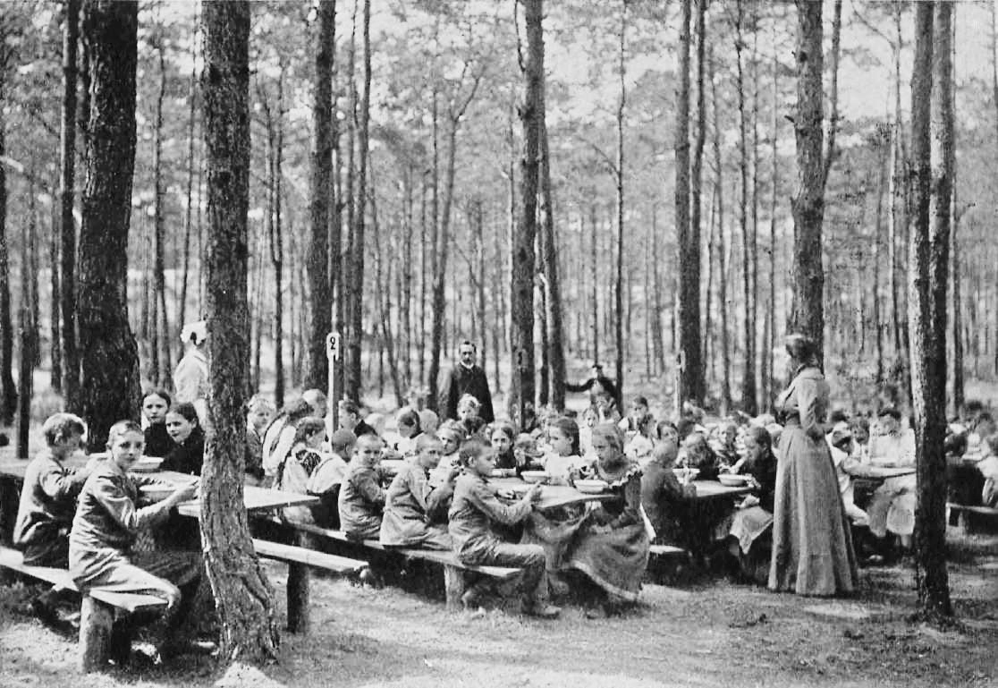 The picture of 1904 shows pupils of Waldschule für kränkliche Kinder (translated: Forest school for sickly children) taking a snack. The very first open-air school worldwide was meant to prevent children from tuberculosis. It was located in the borrough of Westend, in the city of Charlottenburg, near Berlin, Germany, in the outskirts of Grunewald forest, since 1920 part of Germany's capital.